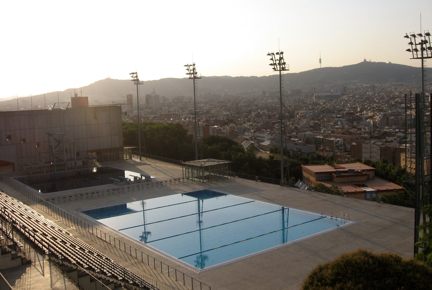 The Olympic swimming pool on Montjuic in Barcelona offers spectacular views over the city. Spring tower at the left side pool